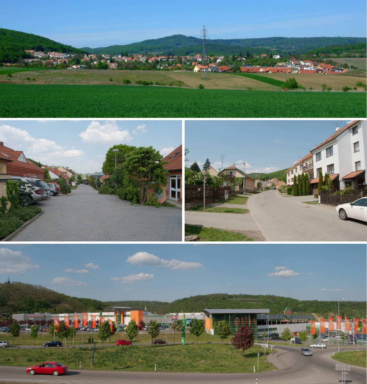 Brno-Ivanovice city district